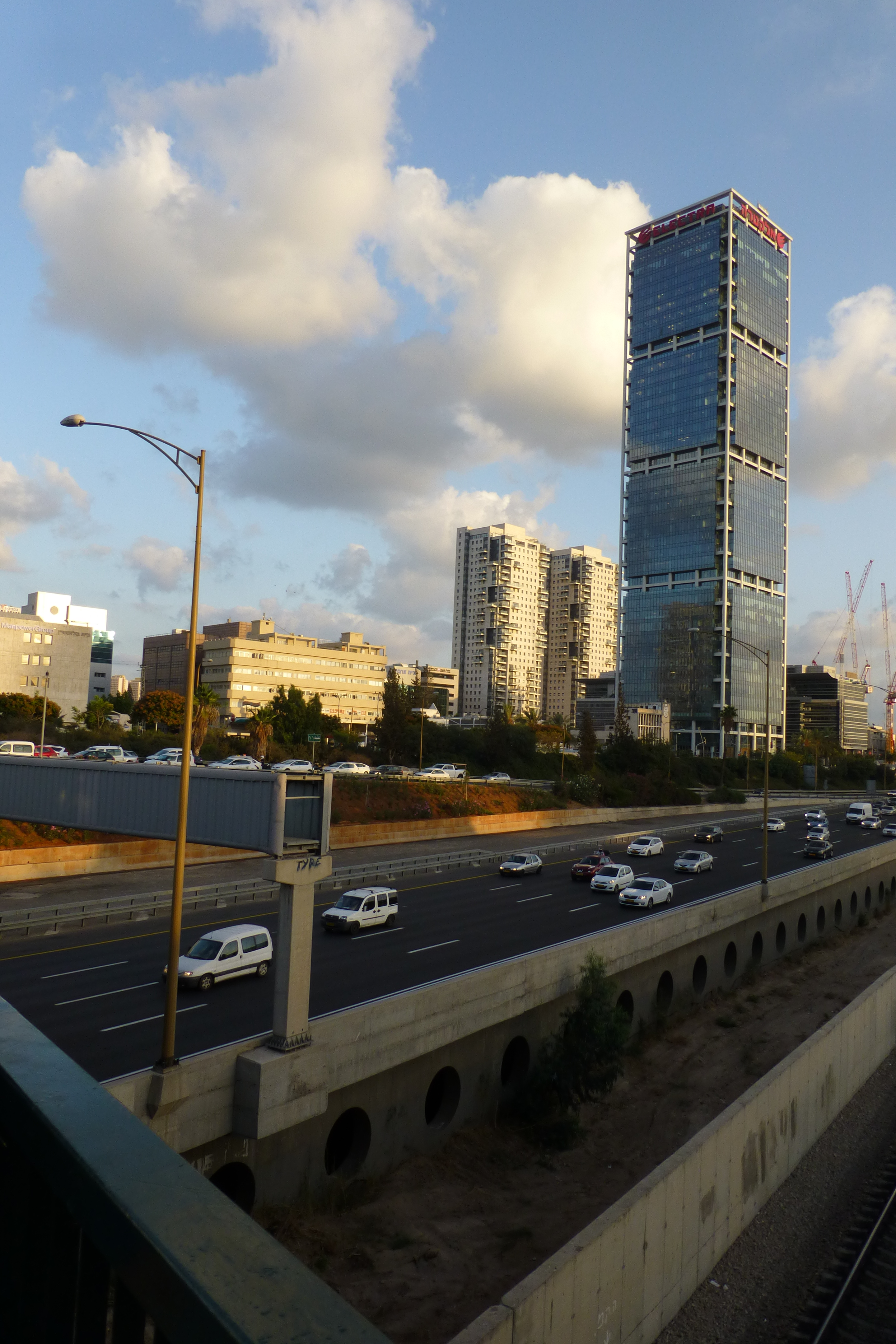 Electra Tower